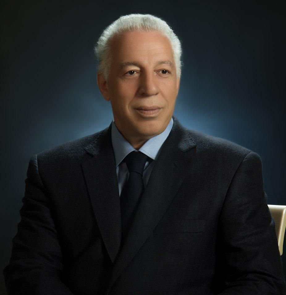 Darioush Shahbazi